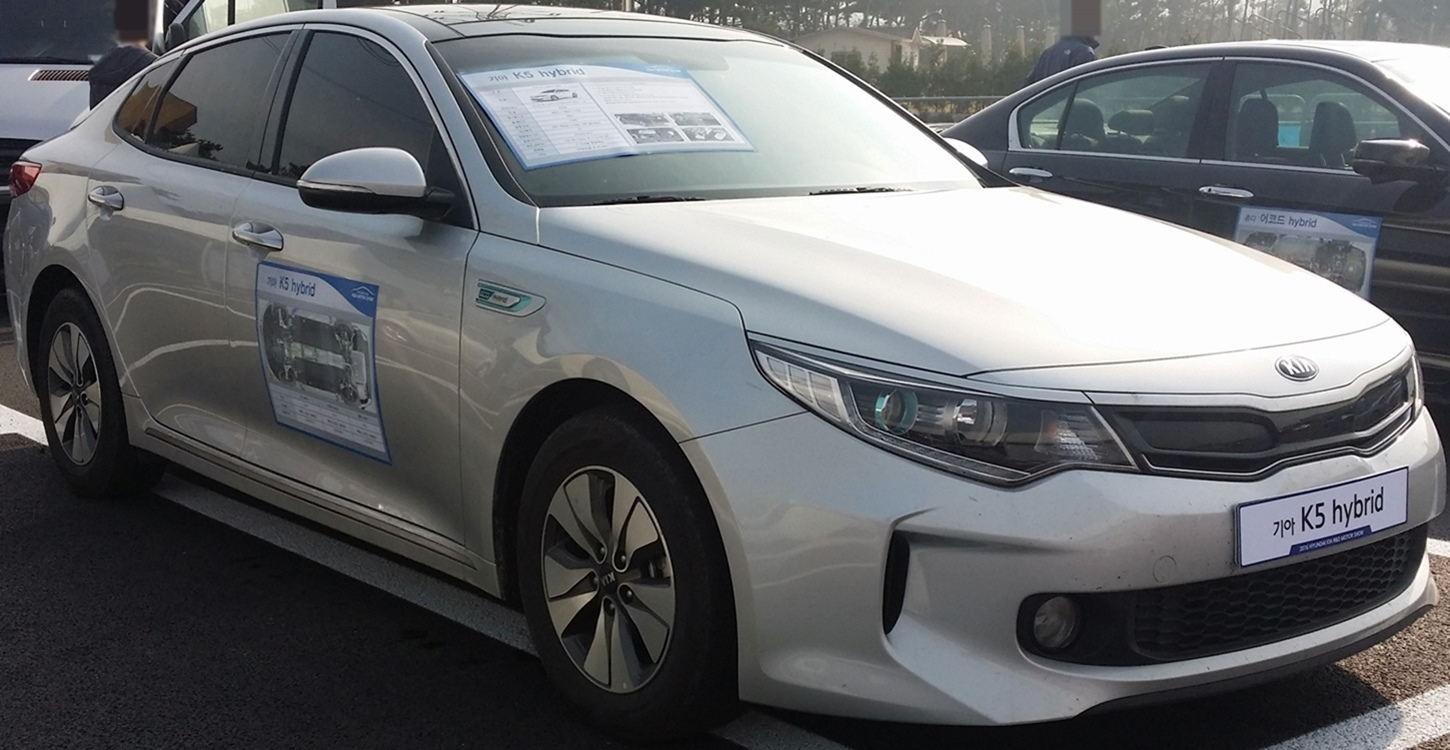 Kia K5 Hybrid